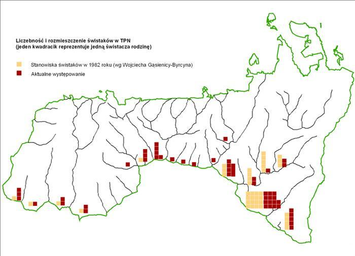 Range of endemic Tatra marmot (Marmota marmota latirostris) within Tatra National Park, southern Poland.